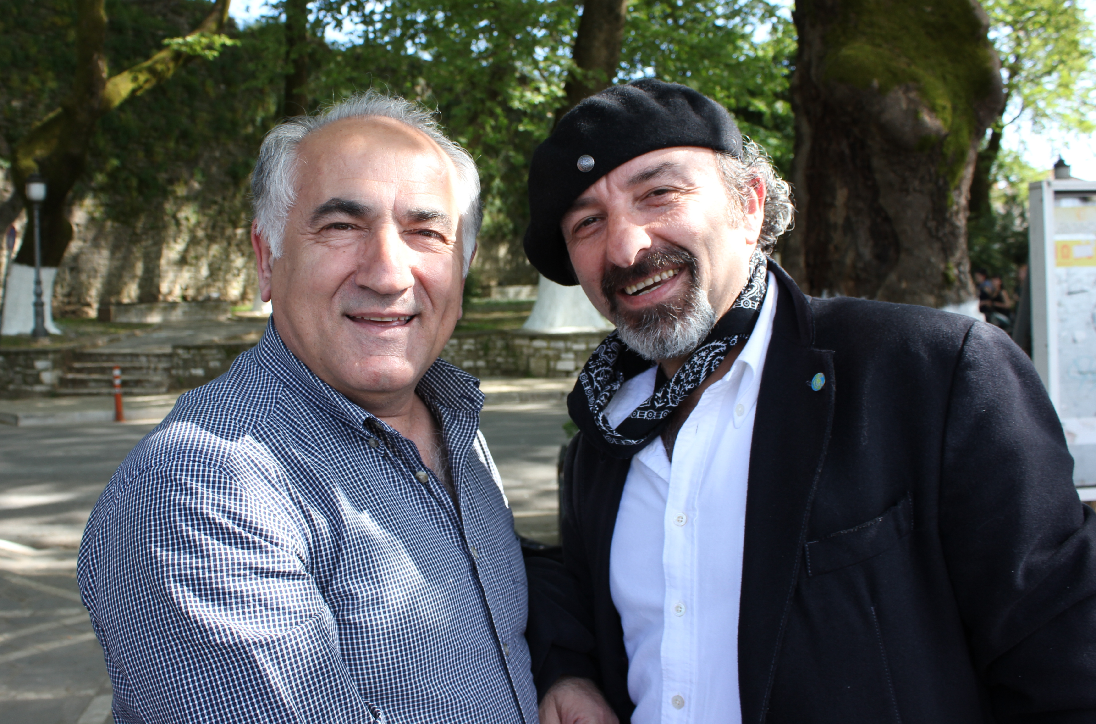 Agim Sulaj and Giorgo Mitsi, Painters, by photo Harry Gouvas, 2013